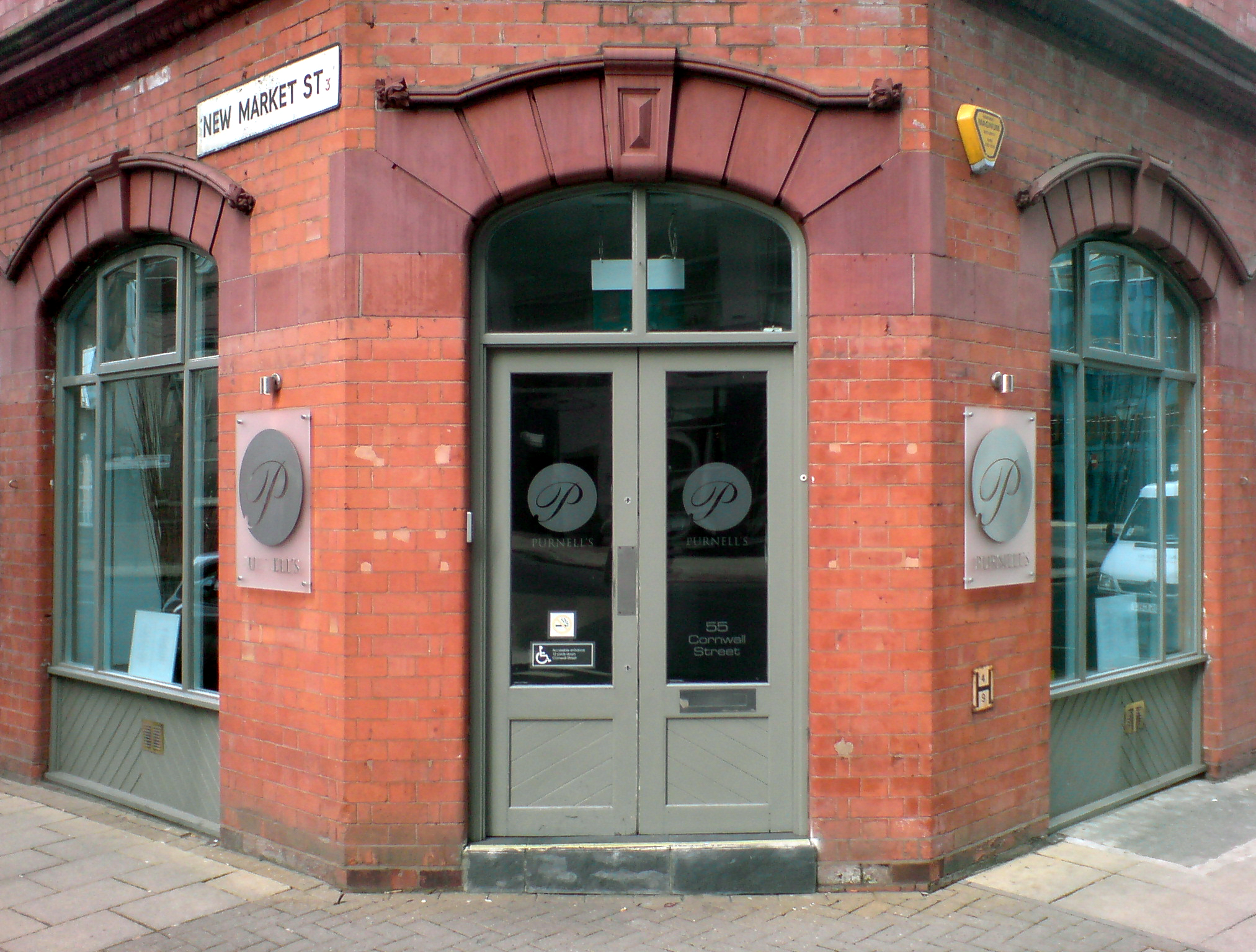 Purnell's Restaurant in Birmingham, England, photographed in February 2010.